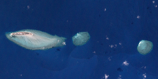 Landsat Image of Coconut Island, Torres Strait Islands, Queensland To the east are Moian Reef and, further East, Newman Reef